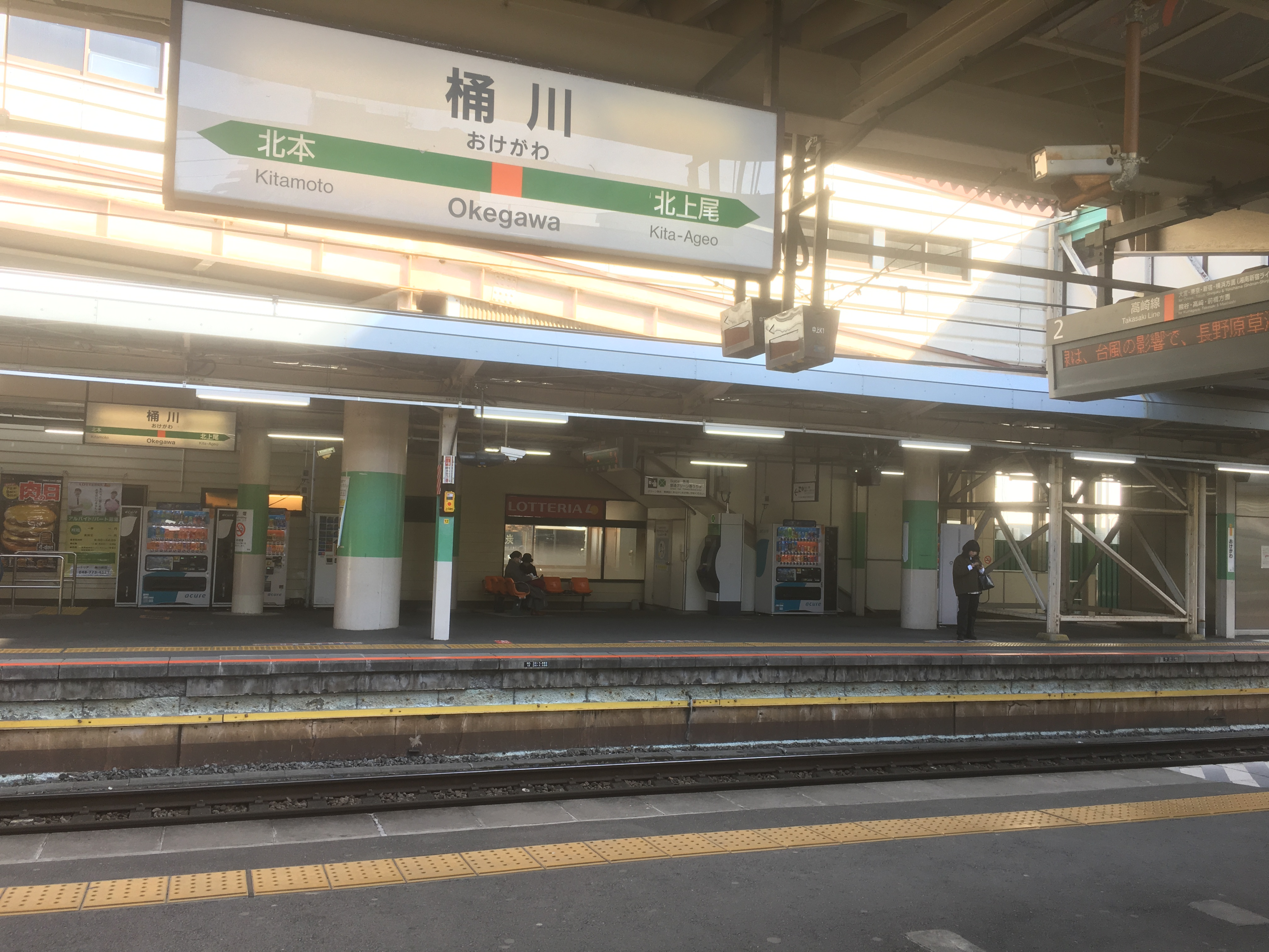 桶川駅のホーム (Okegawa Station platforms)